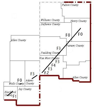 November 10, 2002 Van Wert County tornado track map